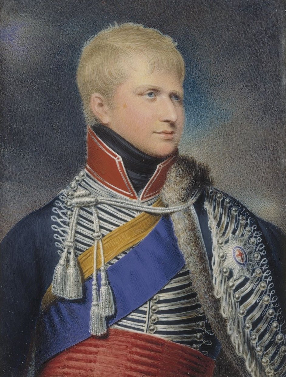 Miniature of Ernest Augustus, Duke of Cumberland, later King of Hanover, by Fischer in the Royal Collection